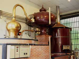 A traditional alembic pot-still ‘l'alambic à repasse’ or ‘charentais’ used to distill calvados at Chateau Du Breuil in Pays D'Auge. Photo Henrik Mattsson